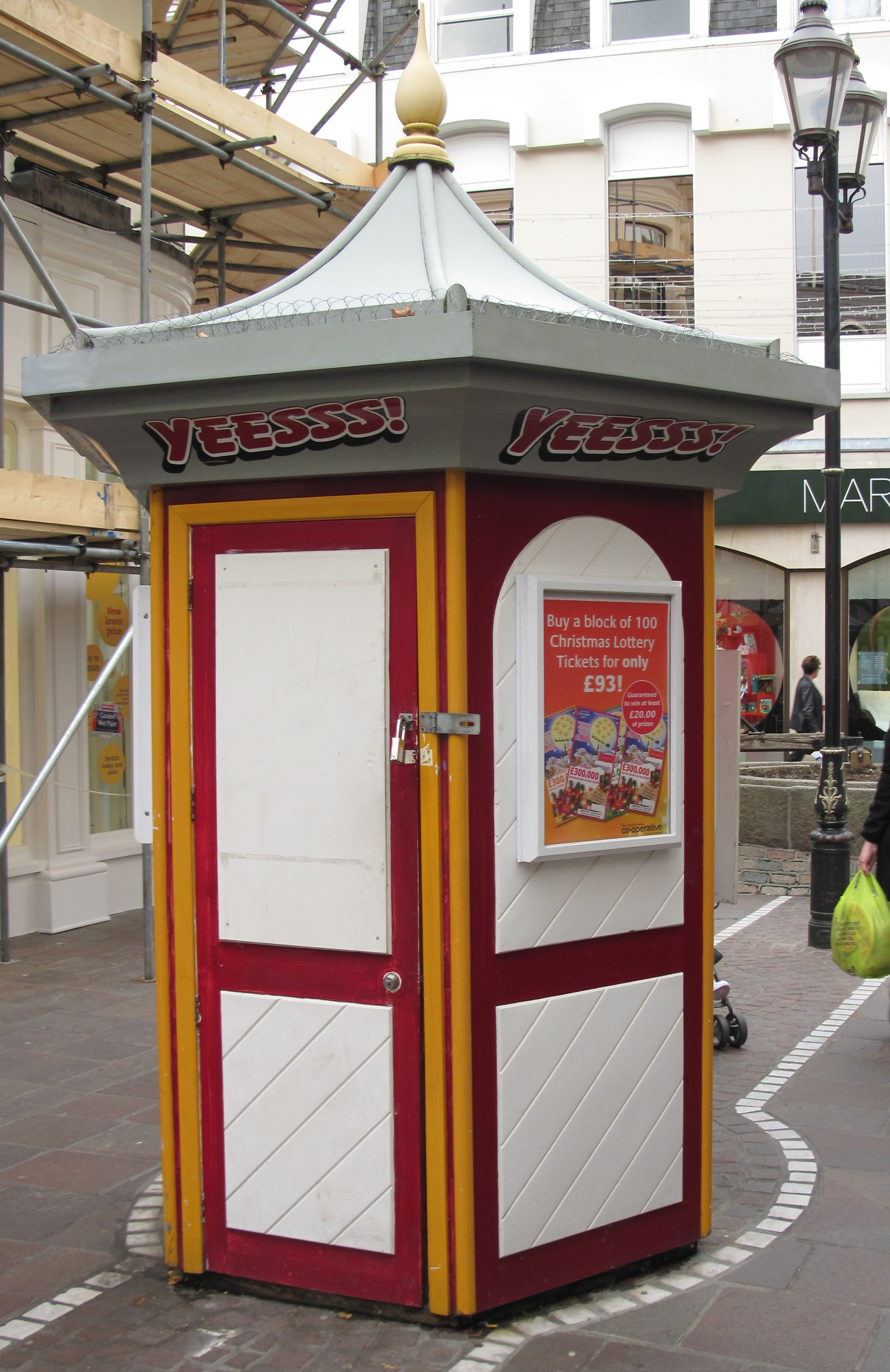 Lottery kiosk, Channel Islands Christmas Lottery, Saint Helier, Jersey